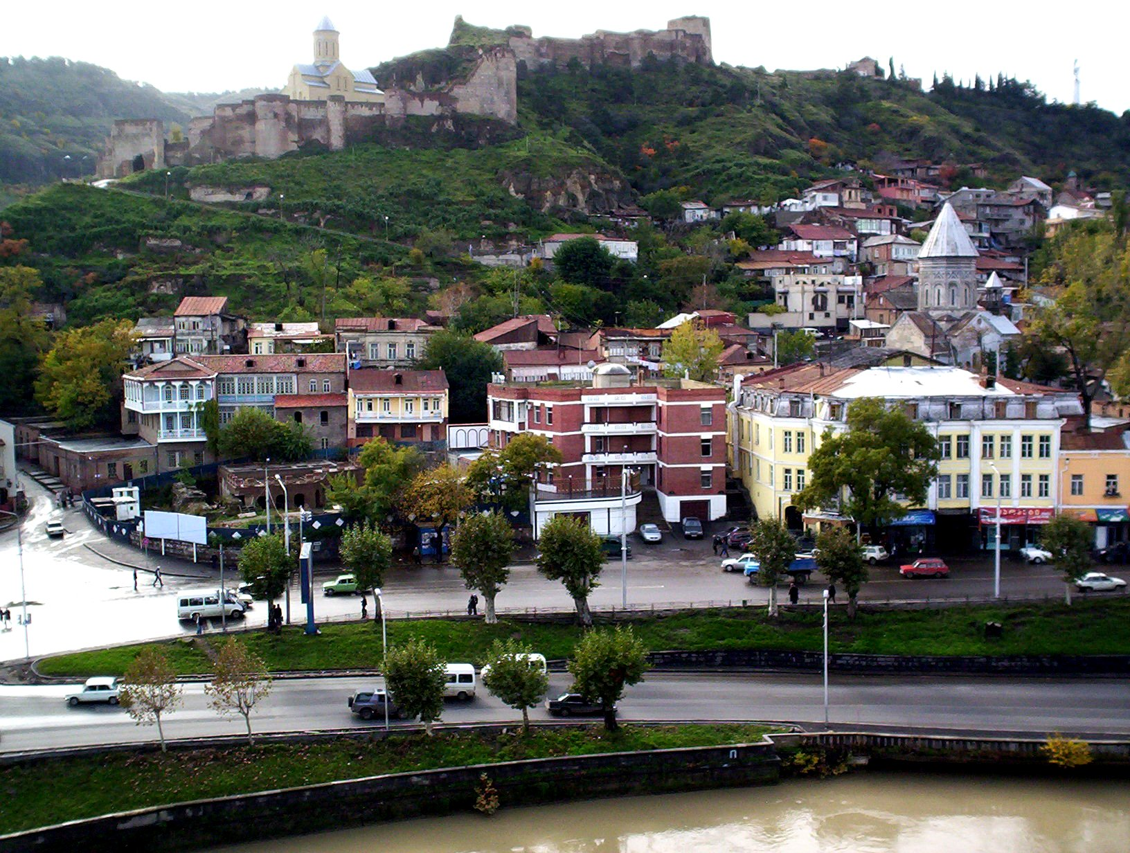 Narikala Fortress in the fall, Tbilisi, Georgia.